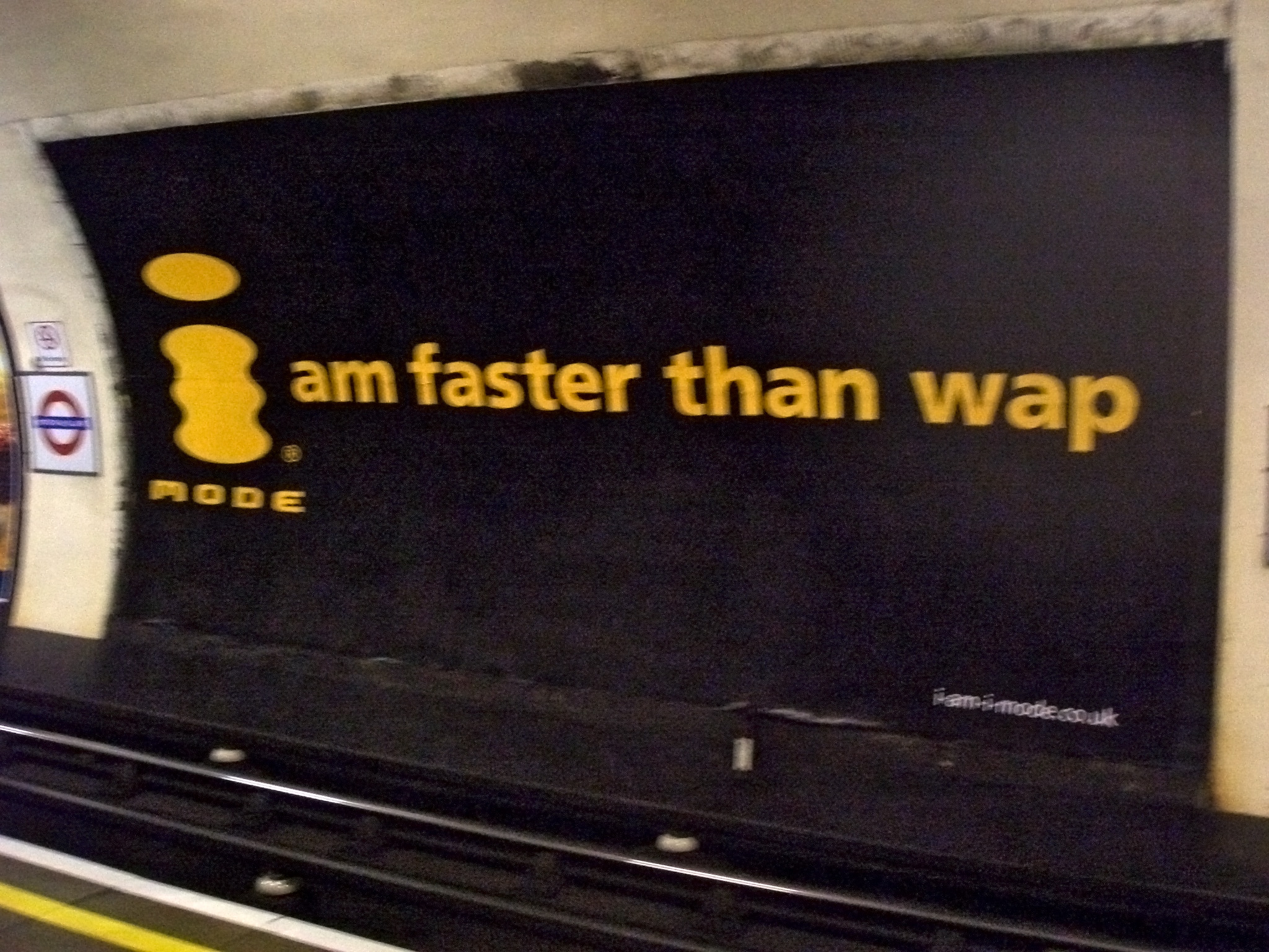 Advert for i-mode on the London Underground. The slogan is "i am faster than wap". Photo taken by User:Edward.